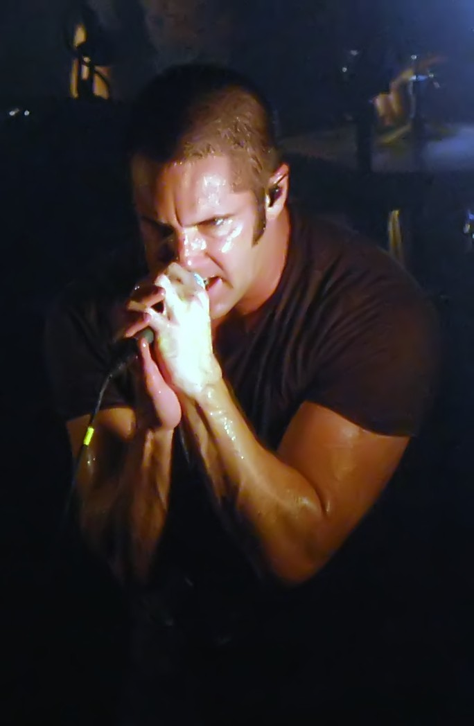 Nine Inch Nails' penultimate performance at the "Music Box". Hollywood, California. 8 September 2009.